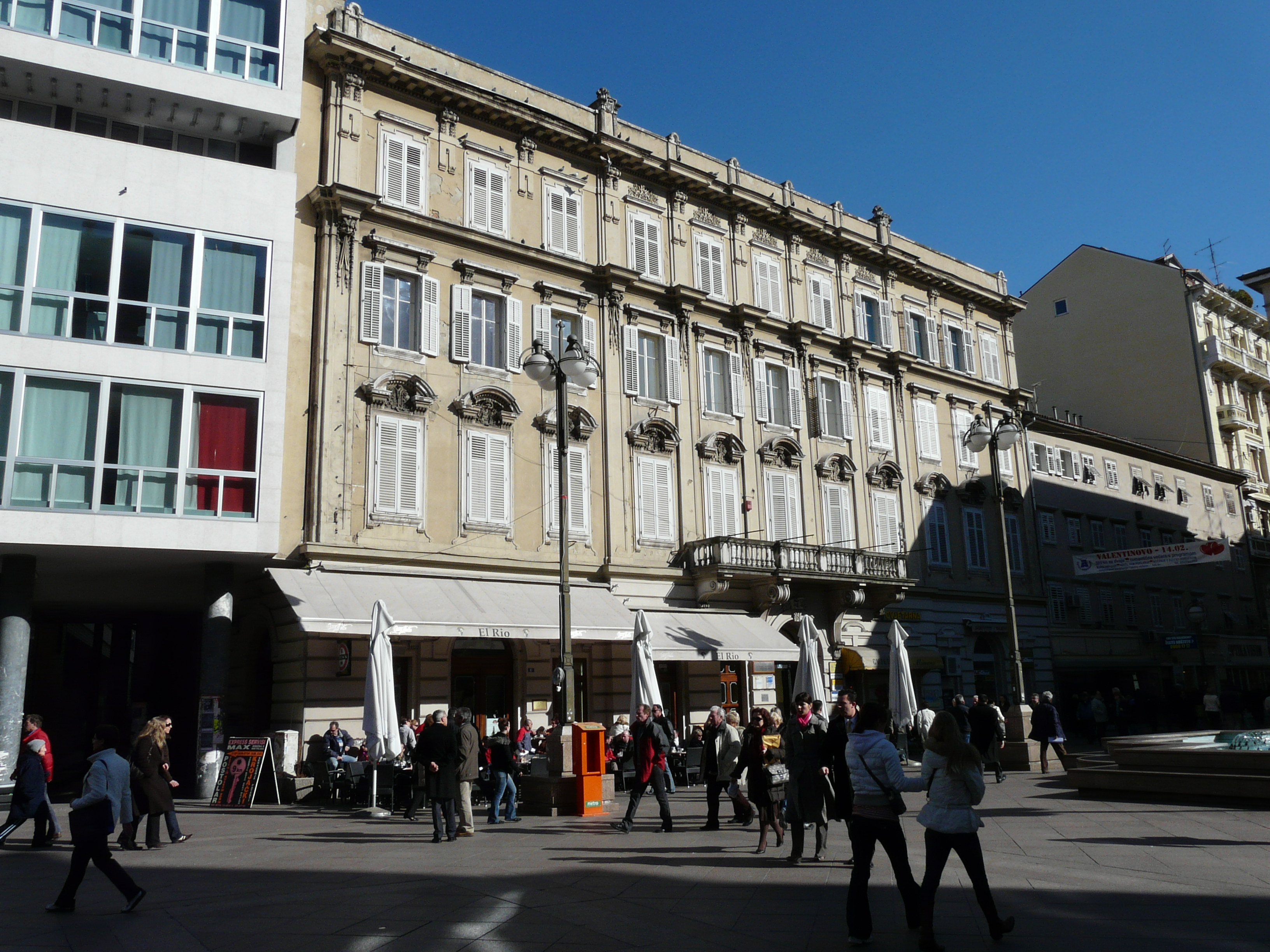 Old building at Erste Bank on Jadranski trg in Rijeka.